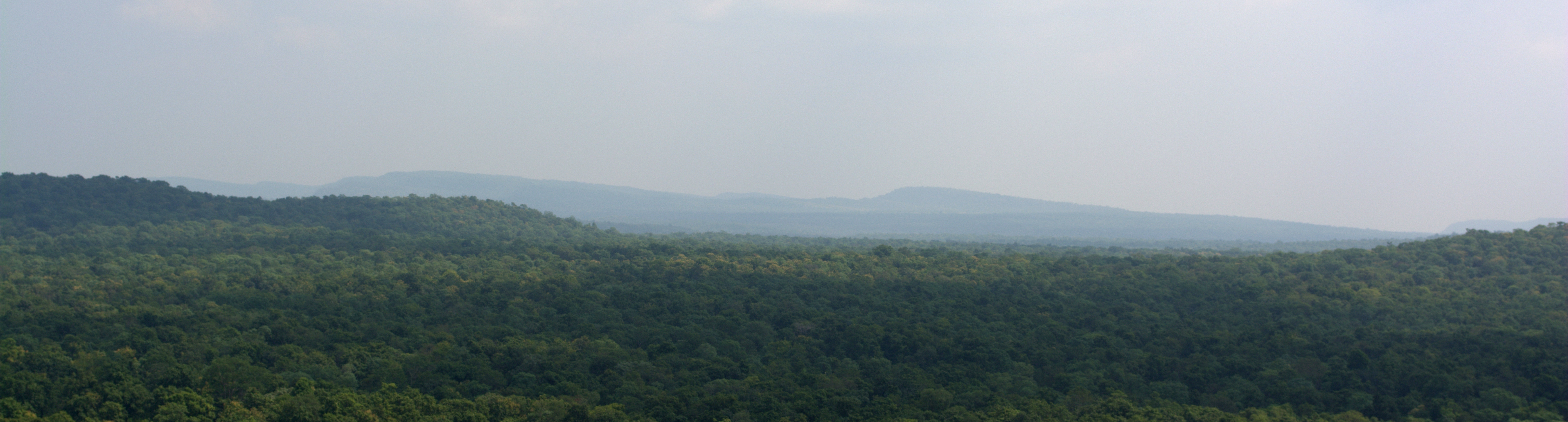 Vindhyas as seen from Bhimbetka in Madhya Pradesh, India